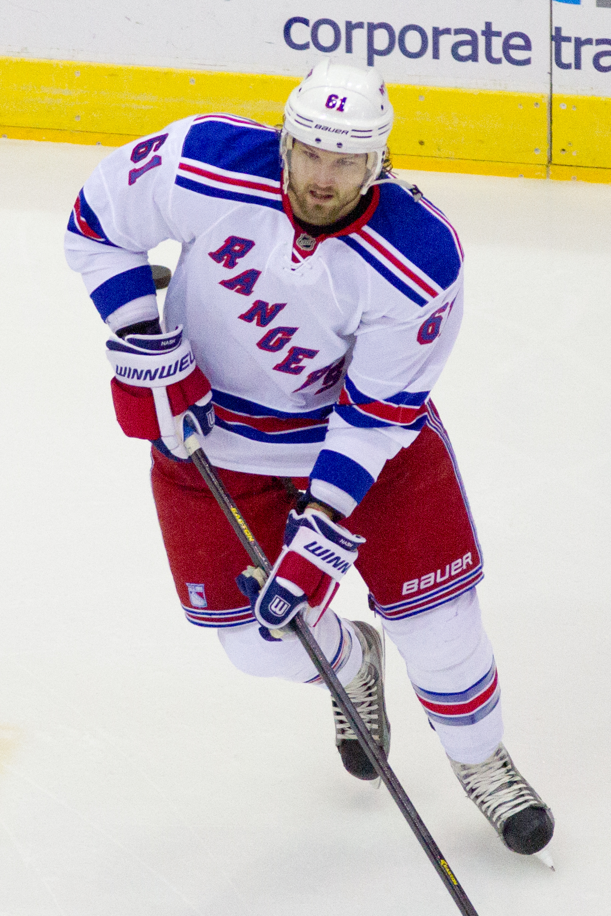 61 Rick Nash